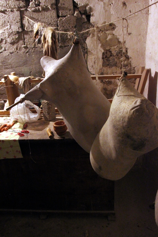 Bagpipe workshop in Akrotiri, Santorini. Bagpipe Workshop [Larger Photo Exists]